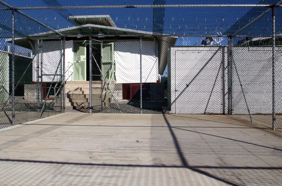 Original caption reads: "A Camp Delta recreation and exercise area at Guantanamo Bay, Cuba. The detention block is shown with sunshades drawn on December 3, 2002. DoD photo by Staff Sgt. Stephen Lewald, U.S. Army. (Released)" from... source